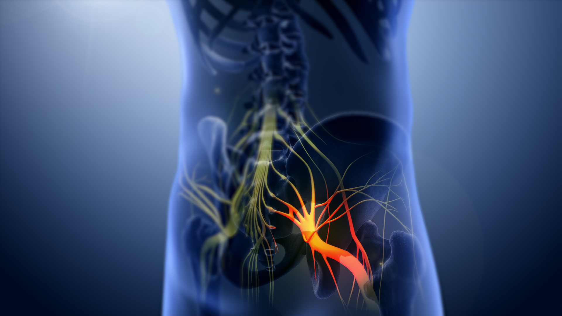 3D medical animation still showing back pain caused by a compression of the sciatic nerve.